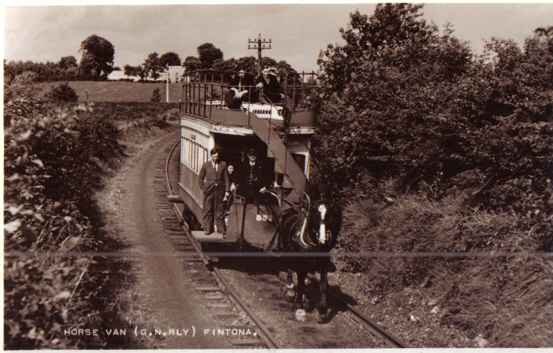 Fintona Horse Tram from a postcard ca. 1930